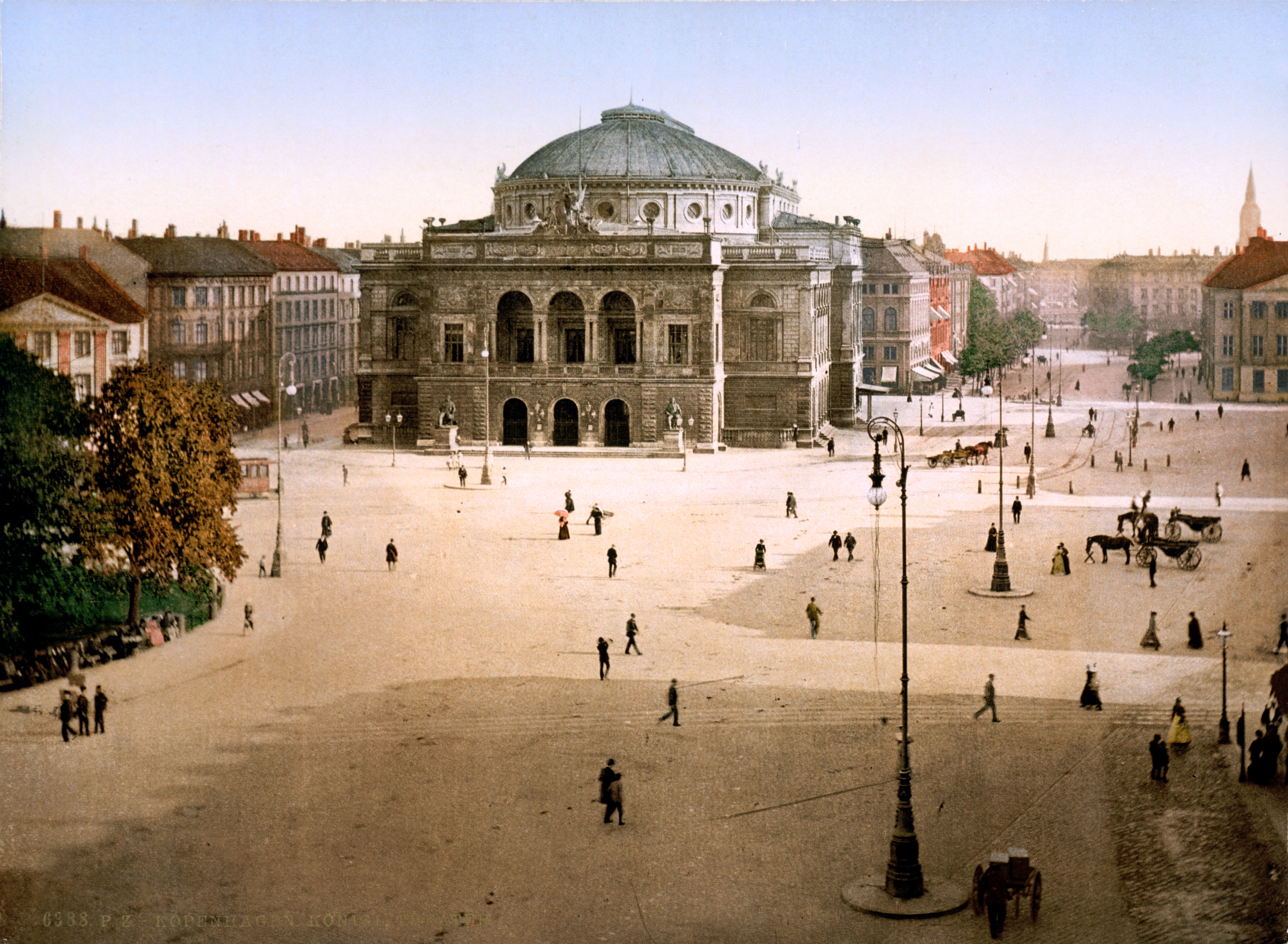 Photochrom print by Photoglob Zürich, between 1890 and 1900. From the Photochrom Prints Collection at the Library of Congress More photochroms from Scandinavia | More photochrom prints [PD] This picture is in the public domain